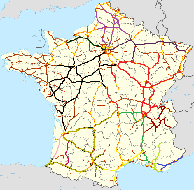 The coverage of different stations in different zones in 107.7 FM.